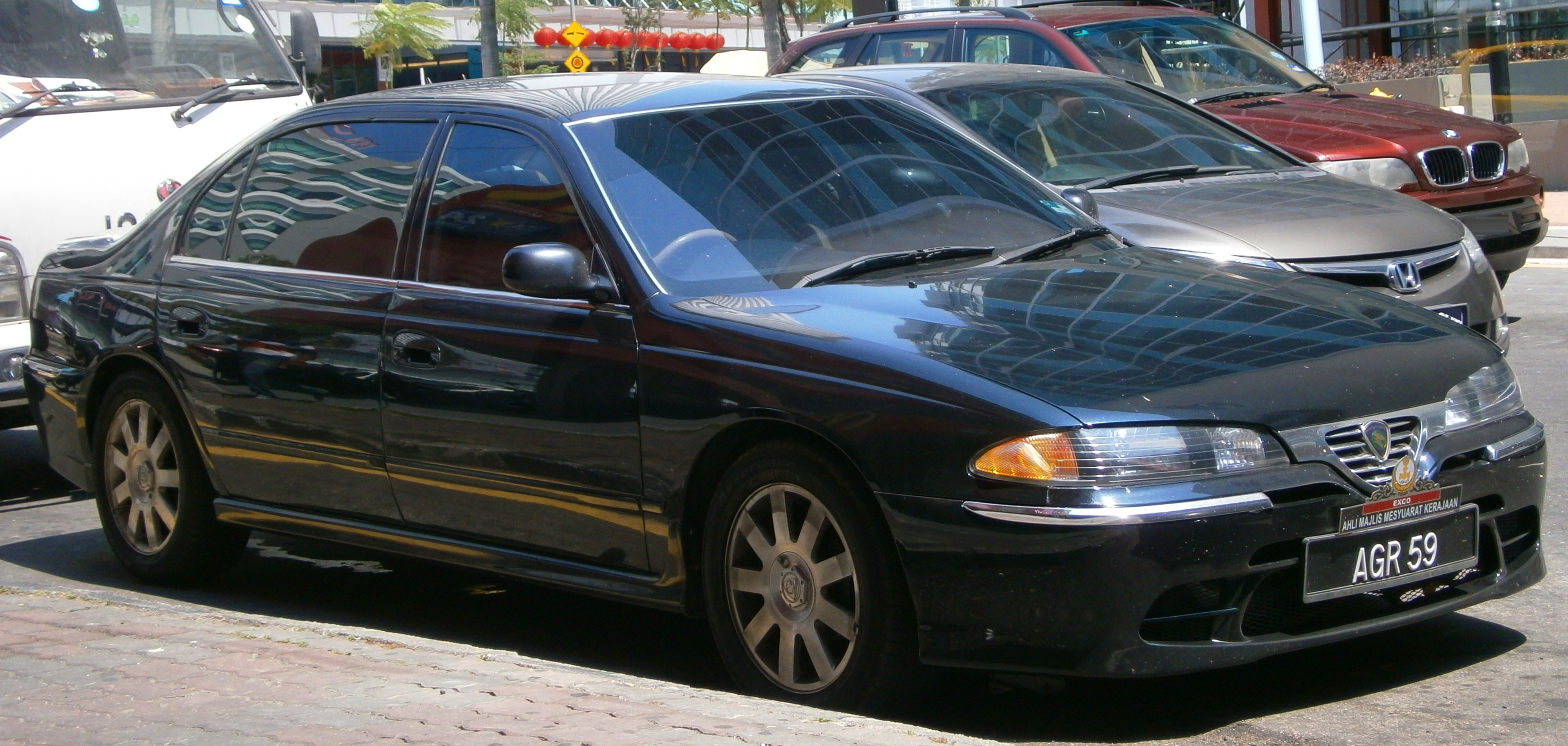 2003-2010 Proton Perdana Executive V6 in Petaling Jaya, Malaysia. Designed in Japan & Malaysia + , Assembled in Malaysia Note : This car belongs to a Perak State Executive Council member.